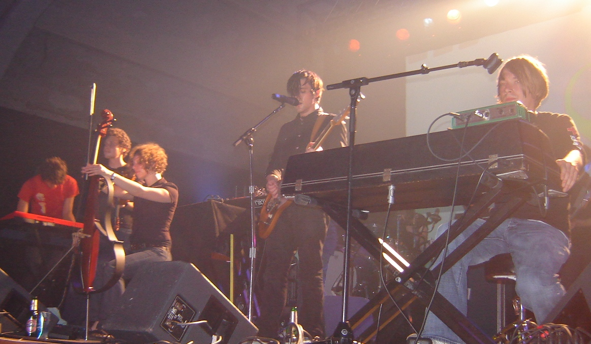 Conor Oberst performing with Bright Eyes at Schlachthof, in Wiesbaden, Germany.